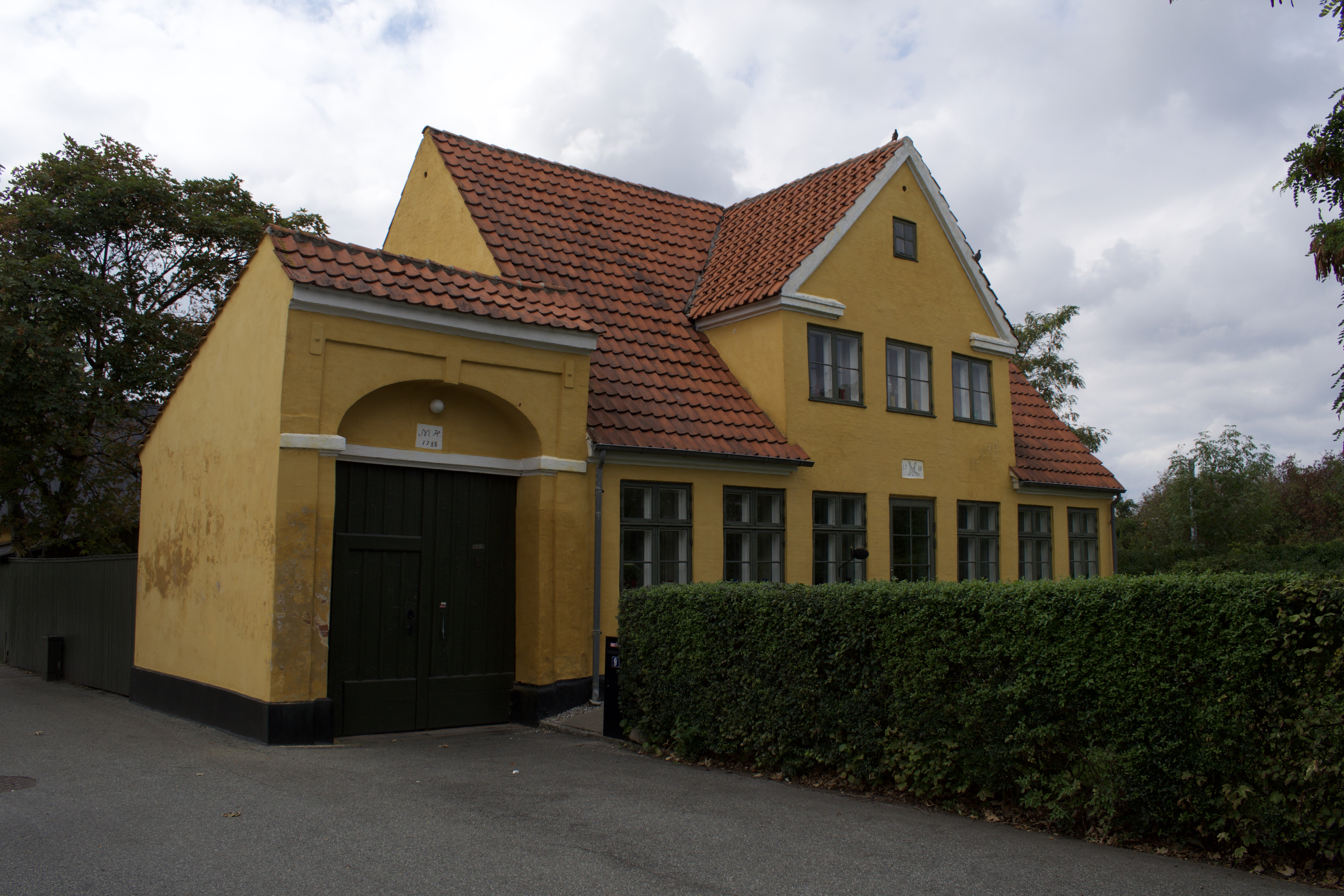 Hallings Gård, listed building in Tårnby, Denmark